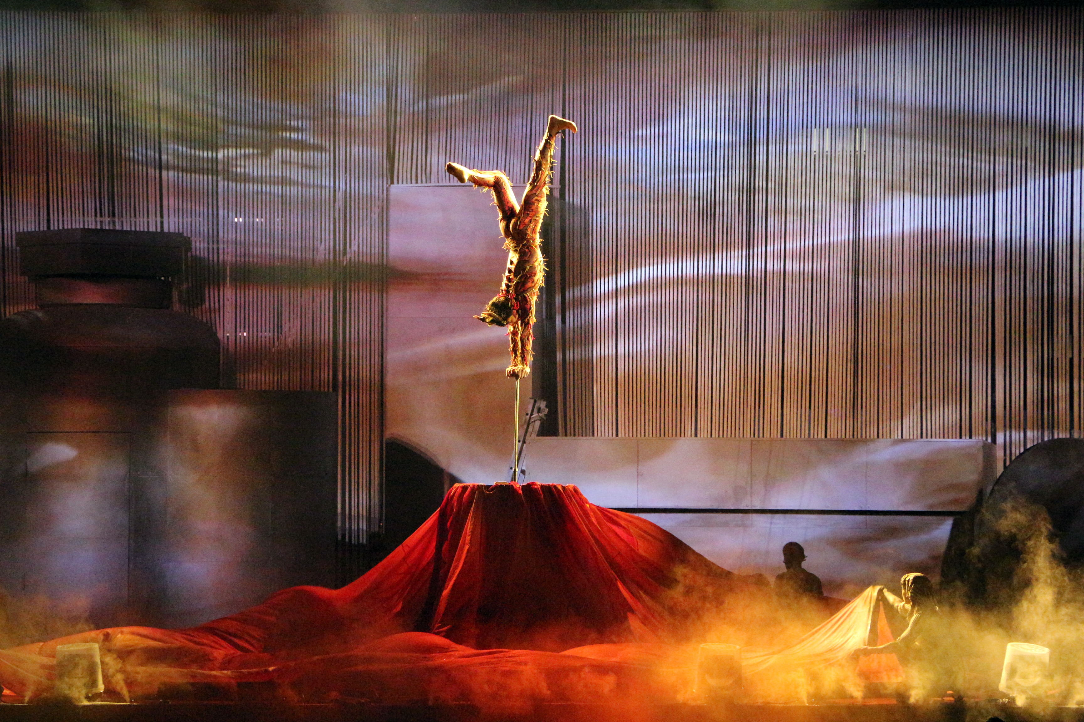 Expo 2015